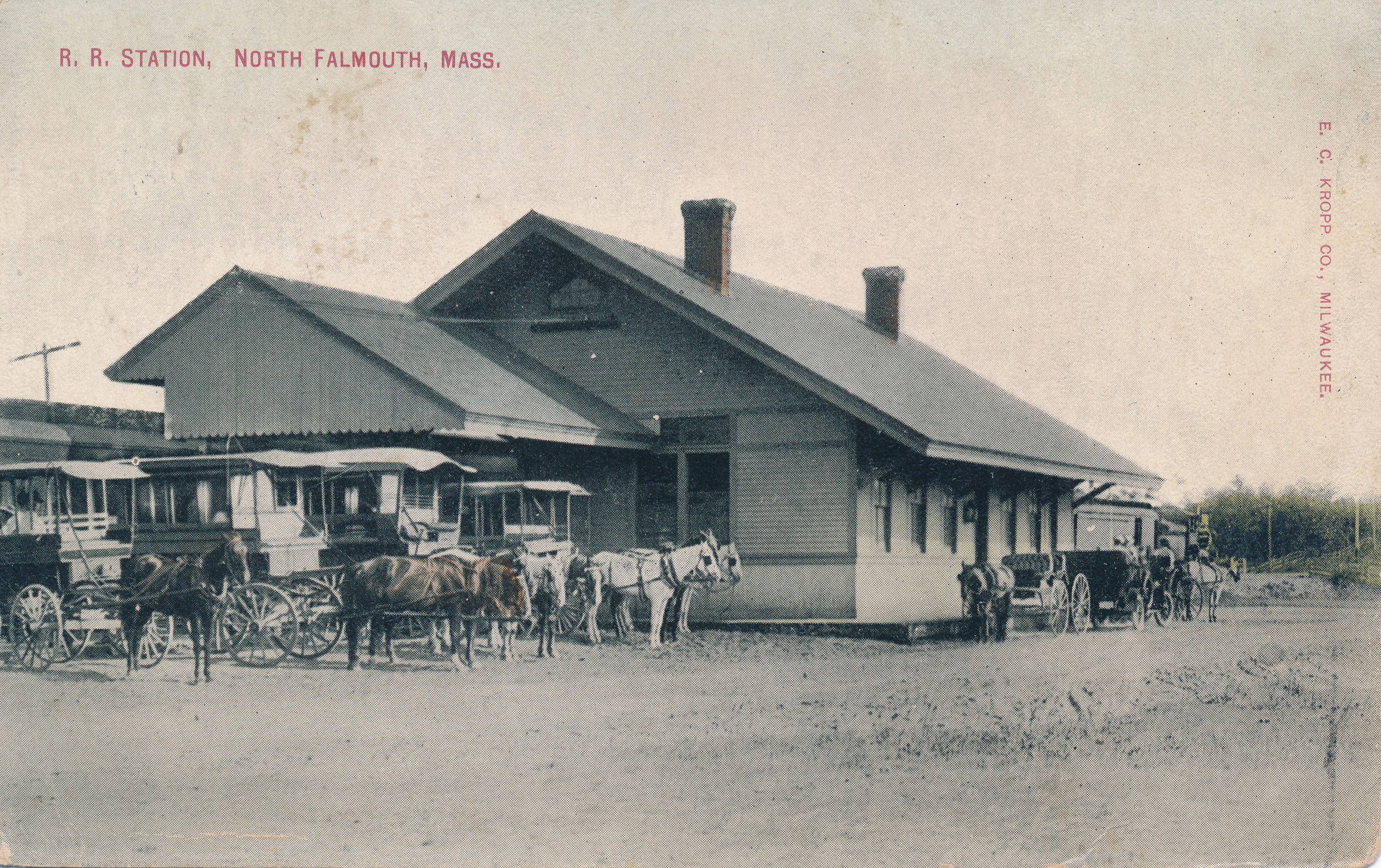 An early postcard showing an image of the former train station in North Falmouth, Massachusetts on Cape Cod.